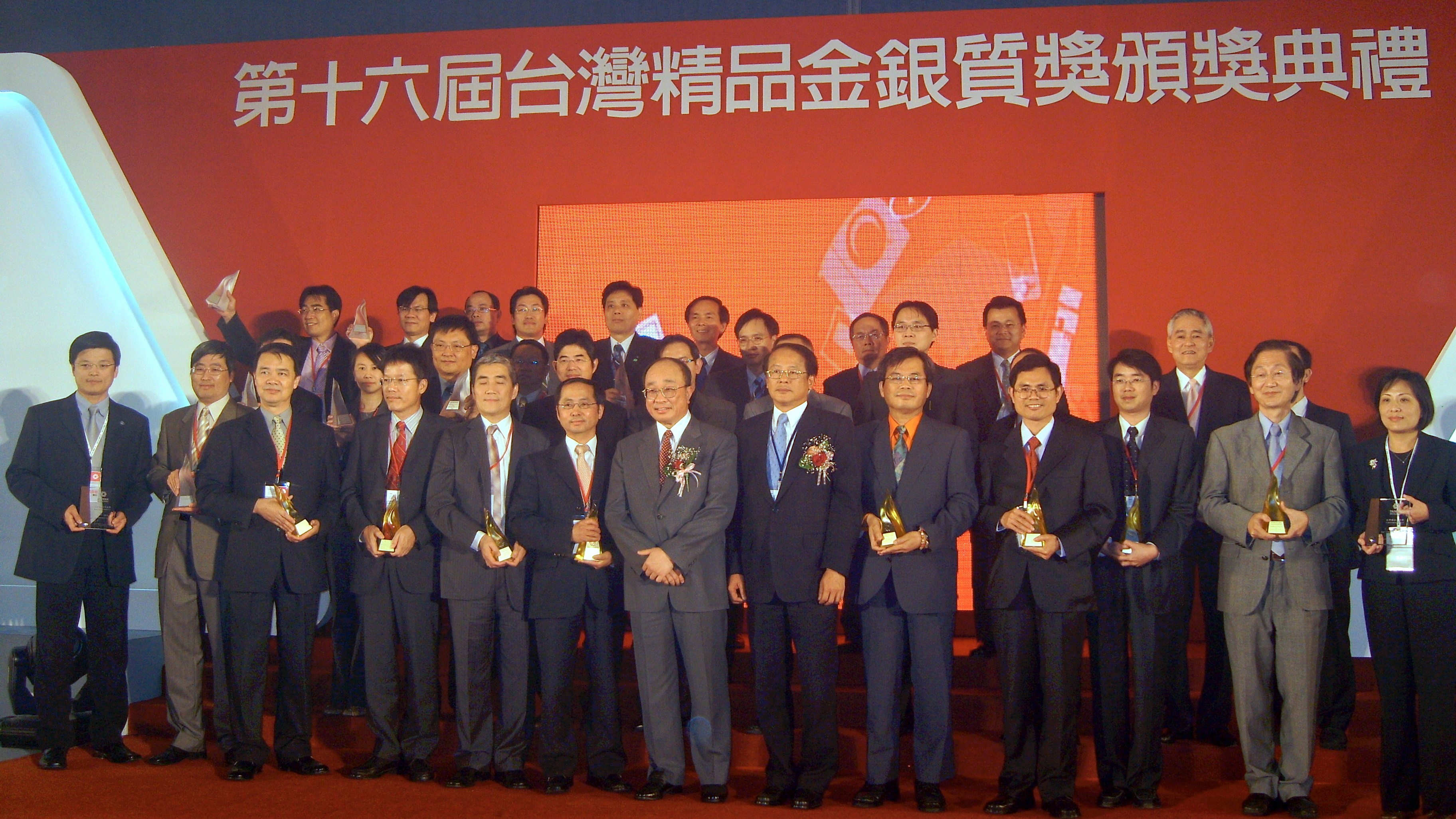 2008 Taiwan Excellence Awards: Winners from Gold and Silver Awards.